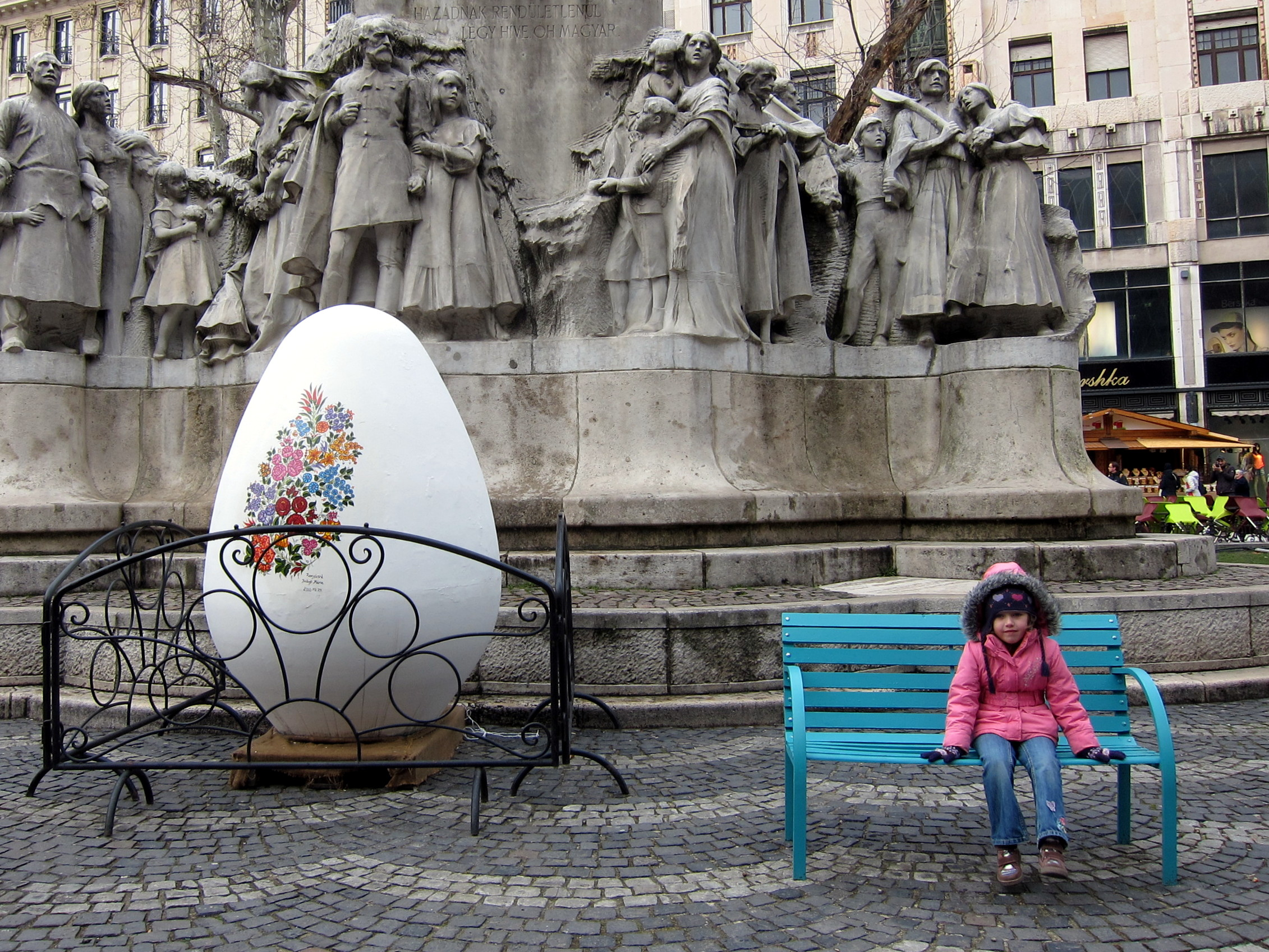 A girl and a giant Easter egg in Budapest, in front of the "Vörösmarty Mihály" monument